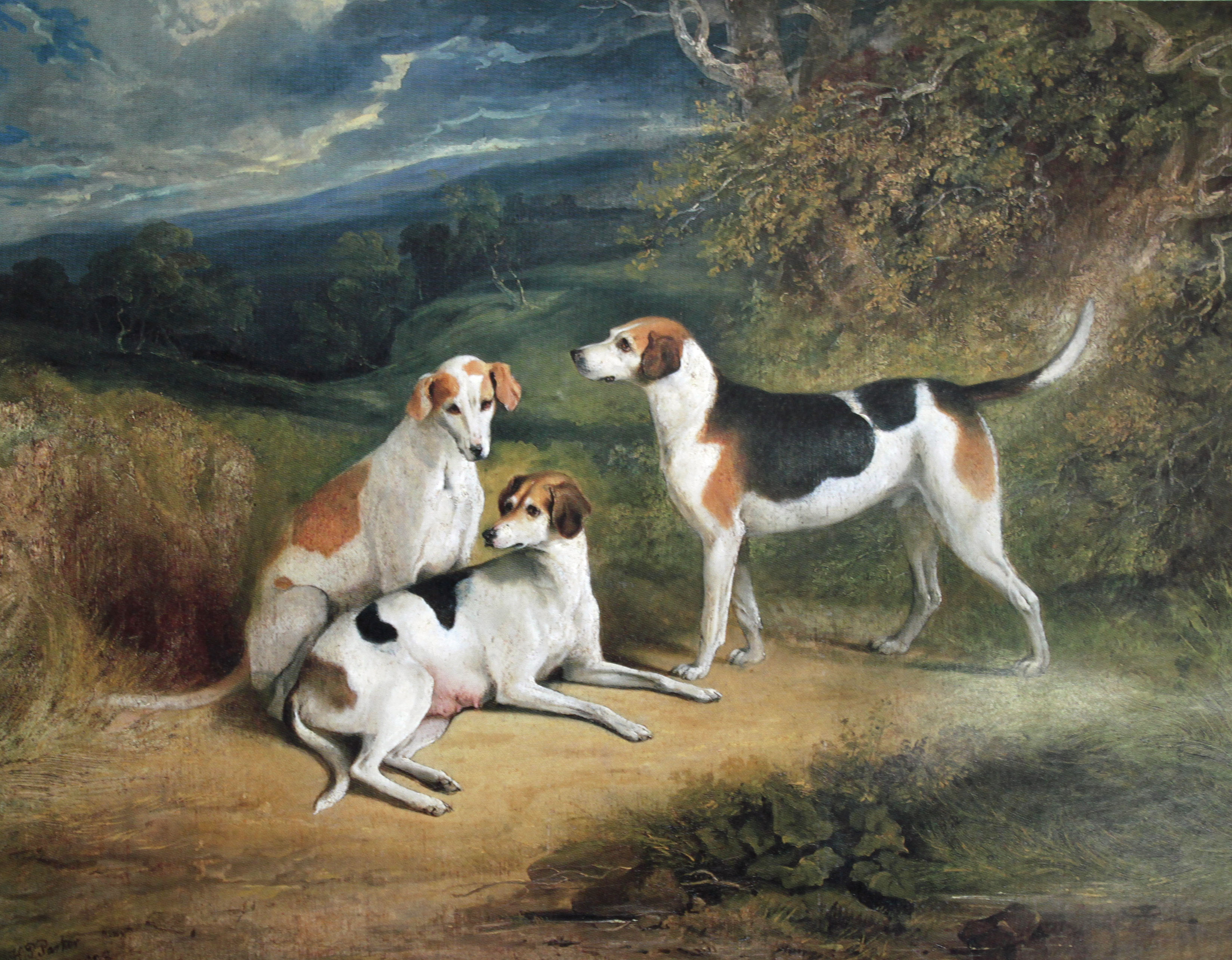 Oil on canvas, 85 x 110 cms. Signed and dated, 1828 Commissioned by William, the 3rd Earl of Darlington